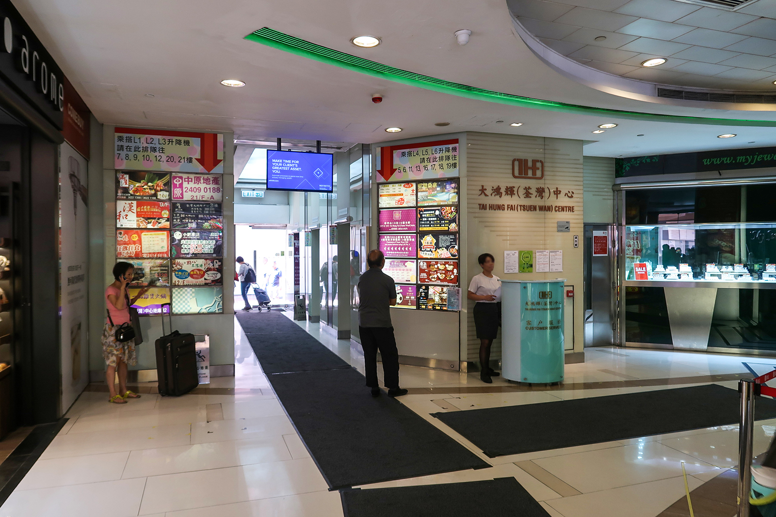 Tai Hung Fai Tsuen Wan Centre GF lift lobby